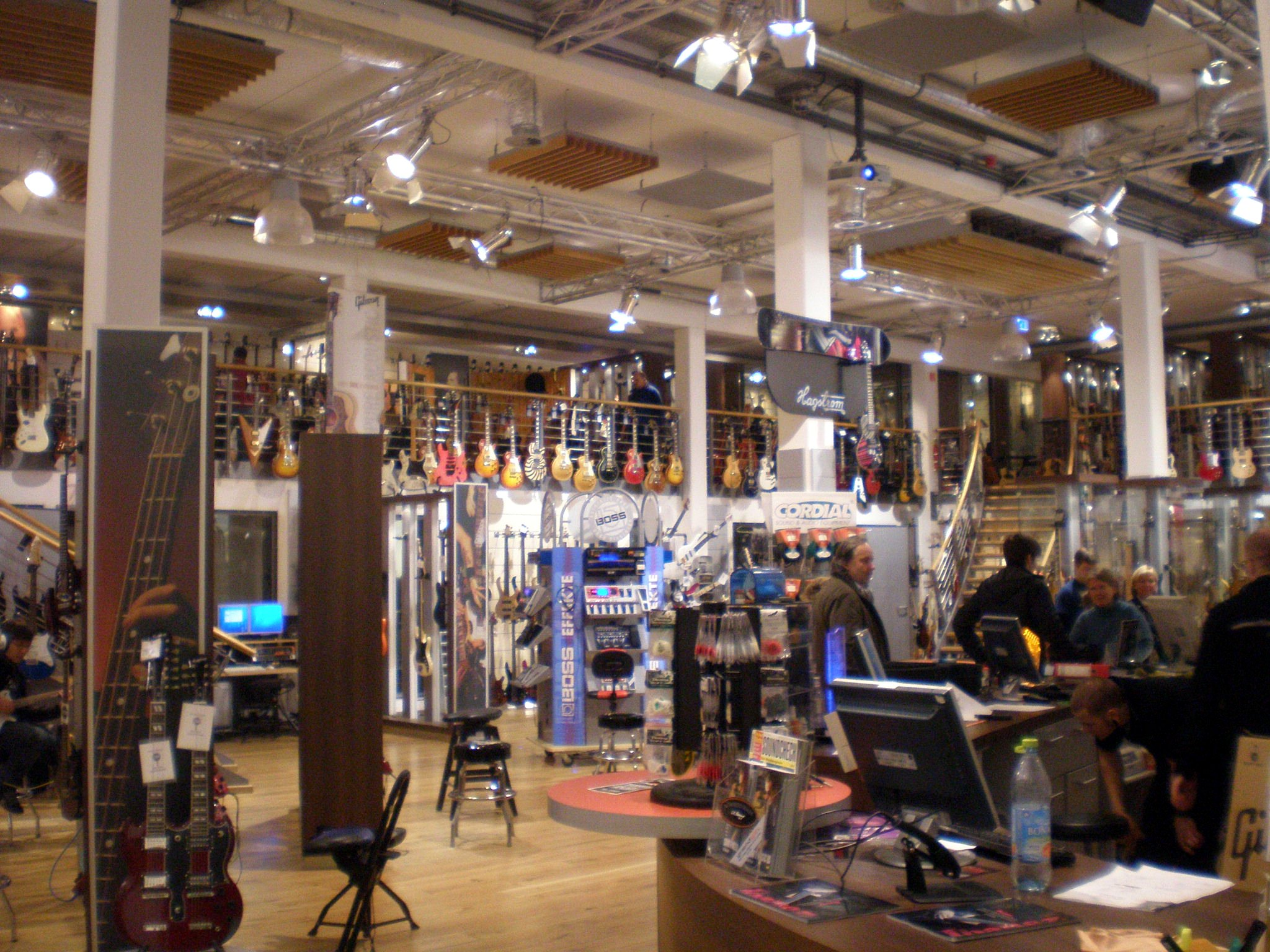 Part of the guitar show room at Musikhaus Thomann